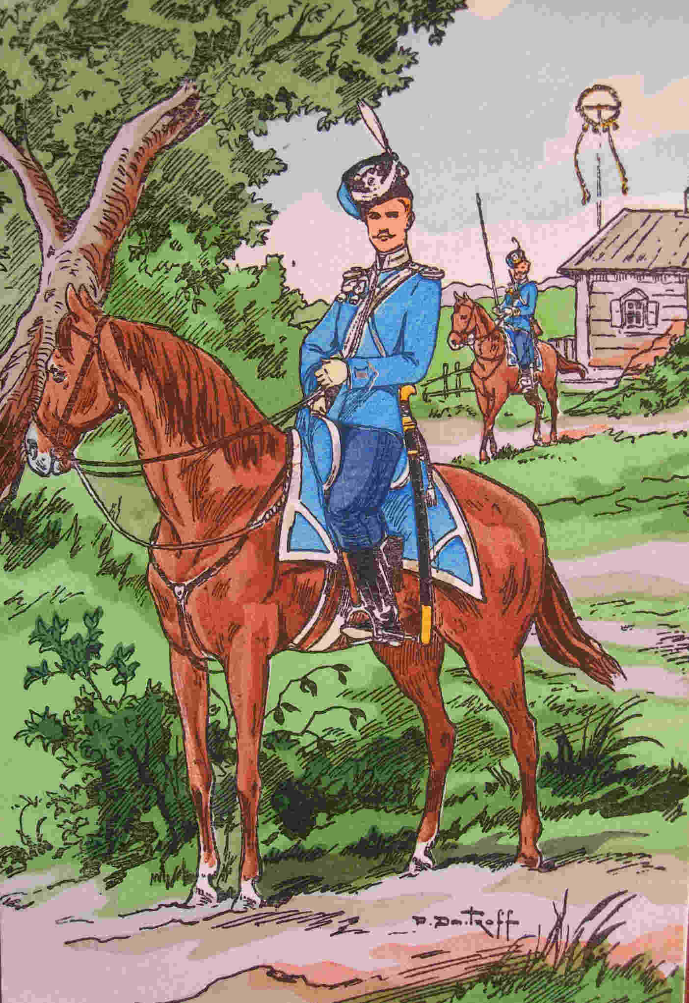 Uniform of Atamansky Guard Regiment. 1914 Postcard